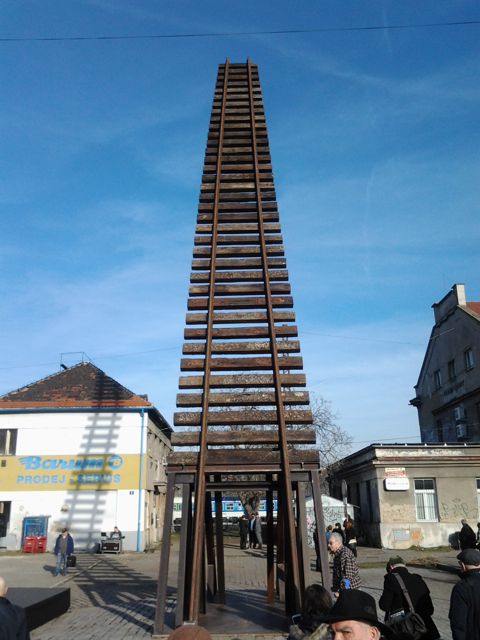 "Gate of No Return", created by Czech sculptor Aleš Veselý. The monument, situated at the railway station Praha - Bubny, recalls wartime Jewish transports to the concentration camps.